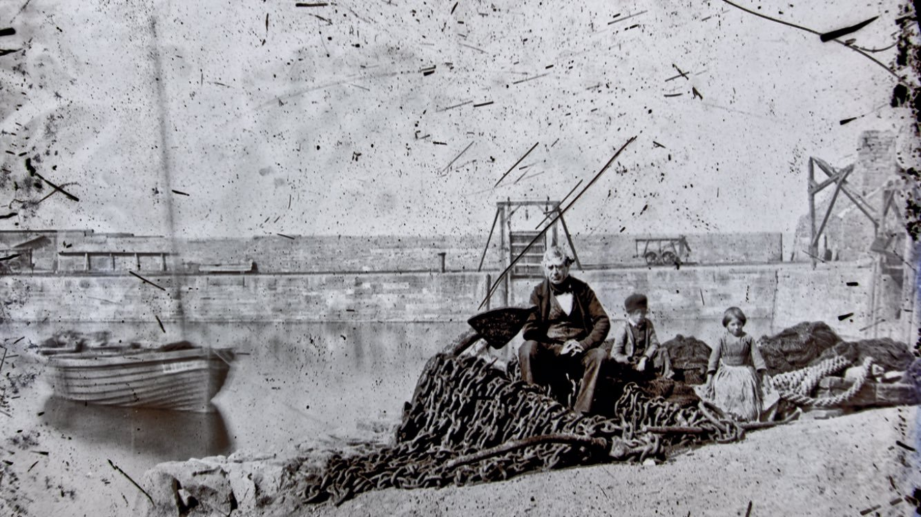 Iron rail waggonway at Cockenzie Harbour, 1854. Photo by general Sir Robert Cadell (Collection of Cockenzie House and Gardens)